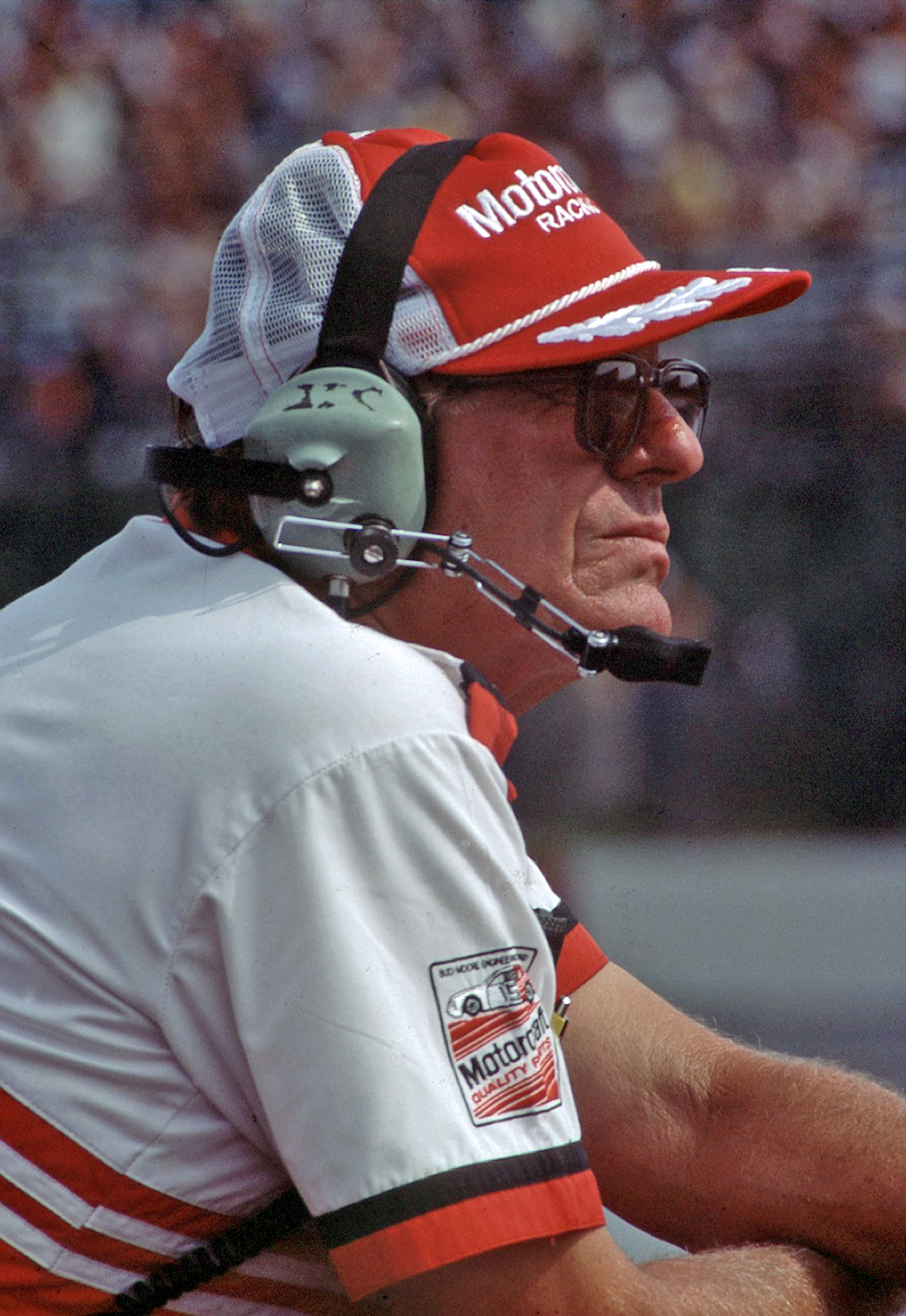 Bud Moore (NASCAR owner), taken in 1985 at Pocono. Photo By Ted Van Pelt